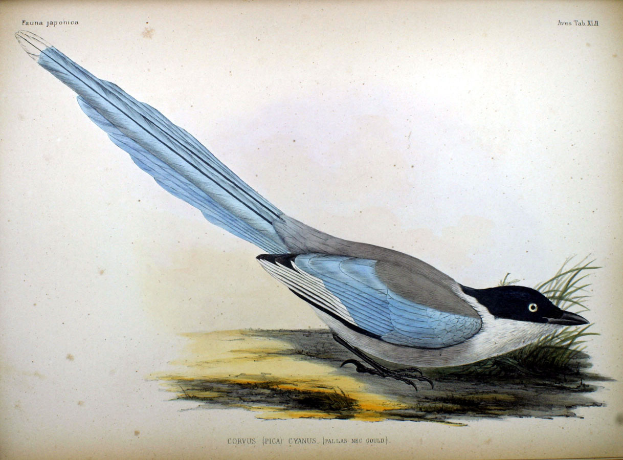 An illustration of an Azure-winged Magpie (Corvus (Pica) cyanus = Cyanopica cyanus) from Fauna Japonica